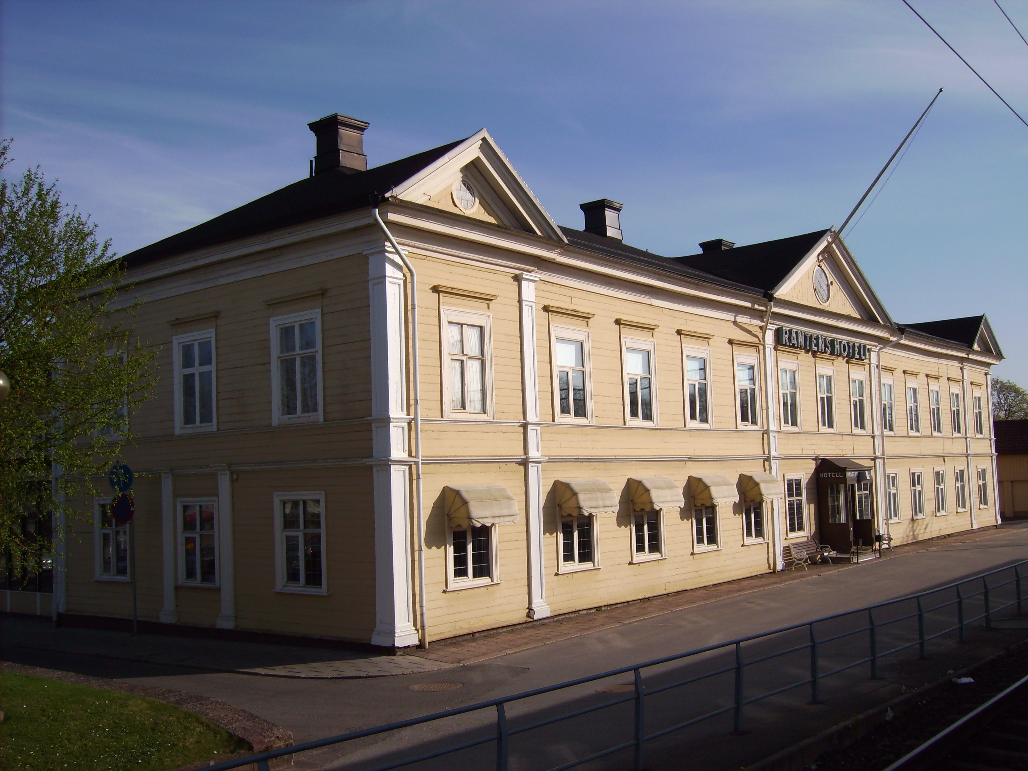 Photo by Harri Blomberg.